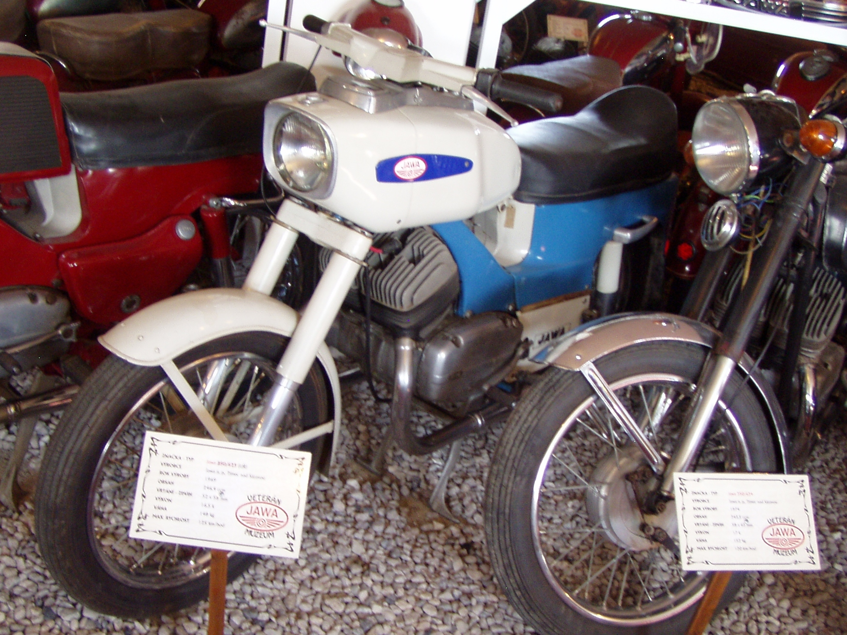 Jawa 250/623 (1969) UŘ